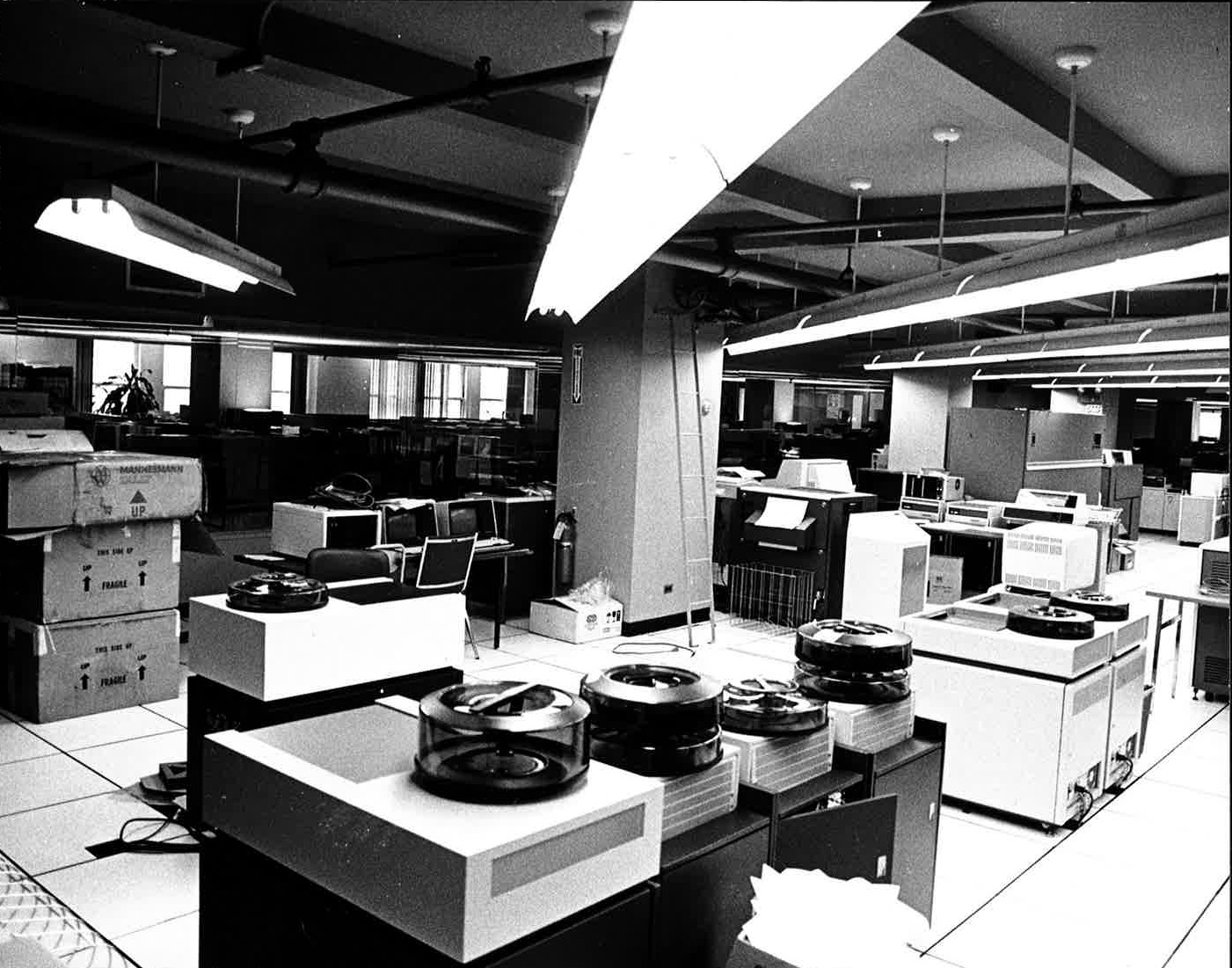 An Informatics General raised-floor computer room in the company's New York City office. A diverse set of mainframe and minicomputers can be seen. Outside the computer room are cubicles and behind them, offices along the walls.